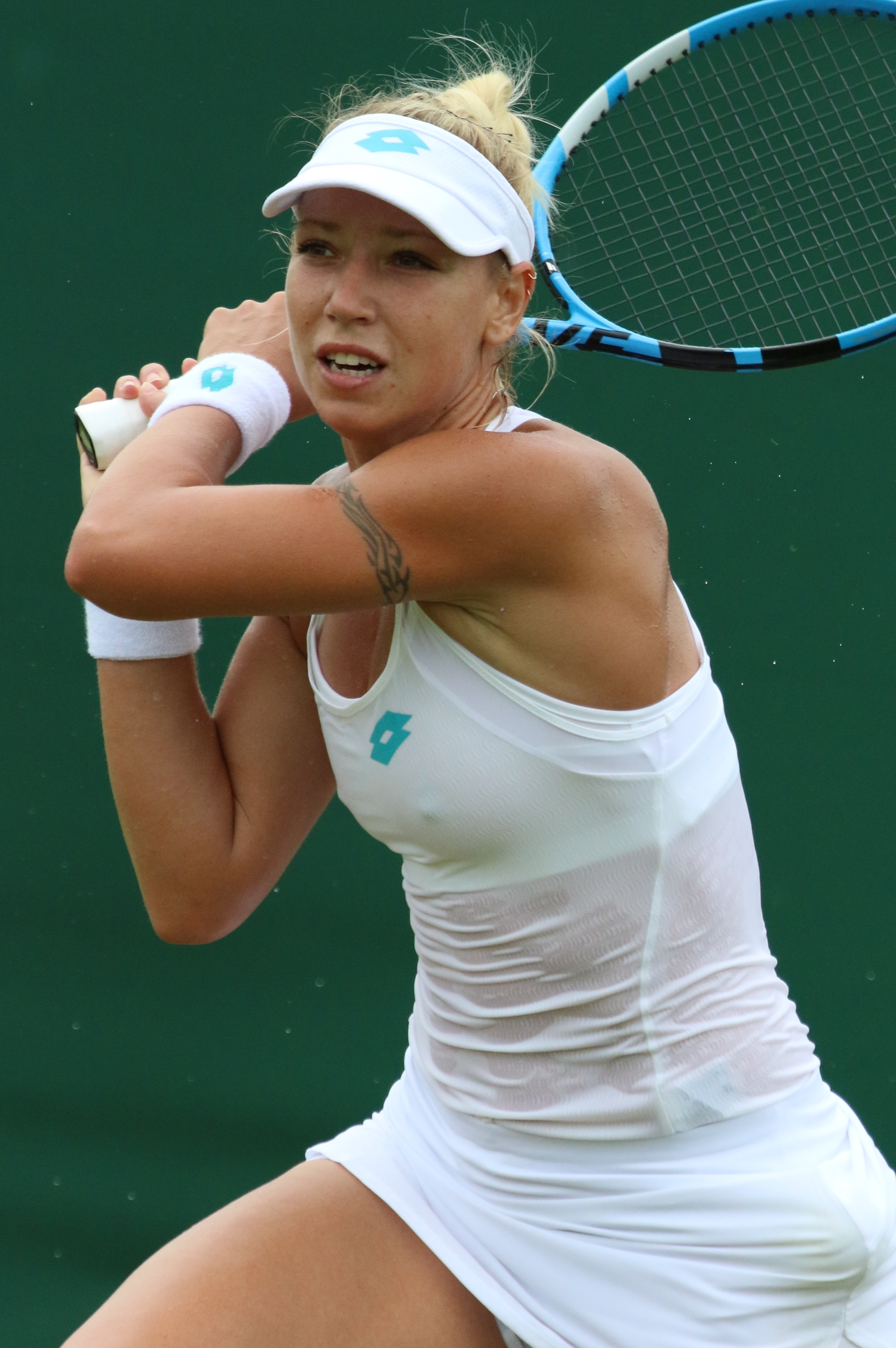 2019 Wimbledon Qualifying Tournament.